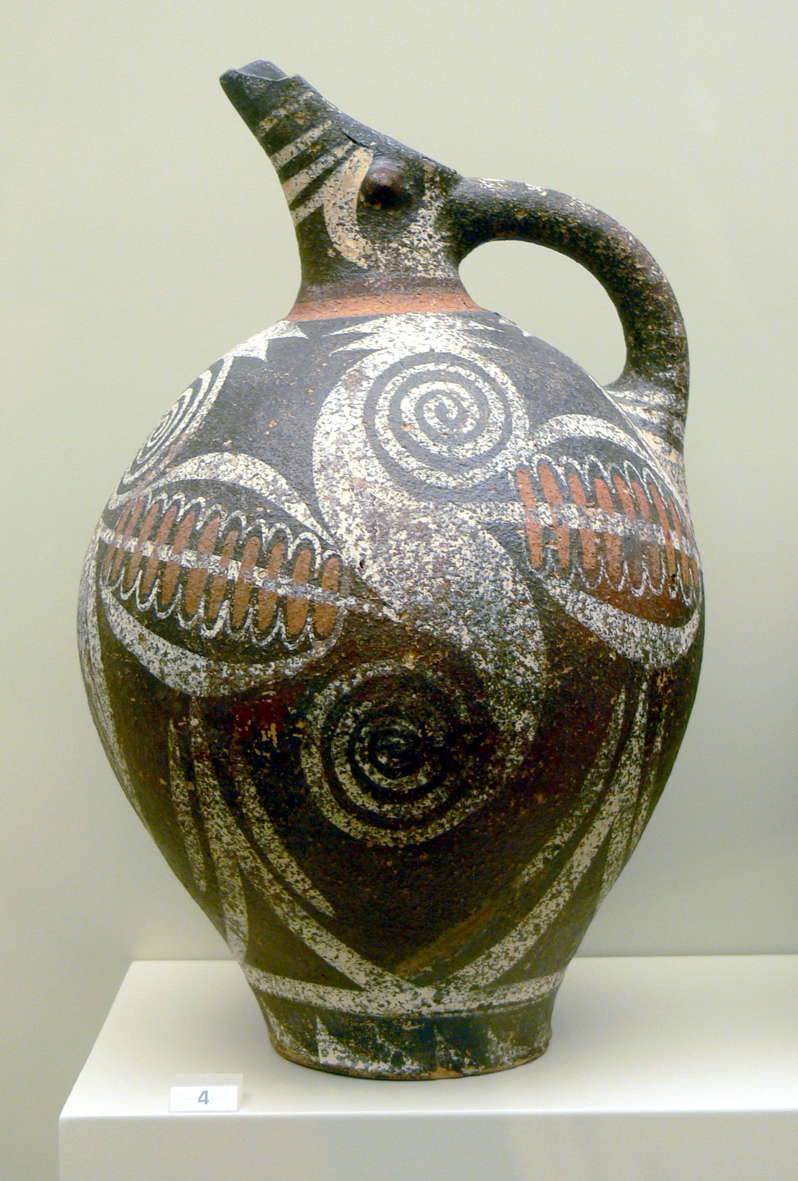 Archaeological Museum of Herakleion. Kamares-style pottery. Old palatial period ( 2100-1700 B.C. )